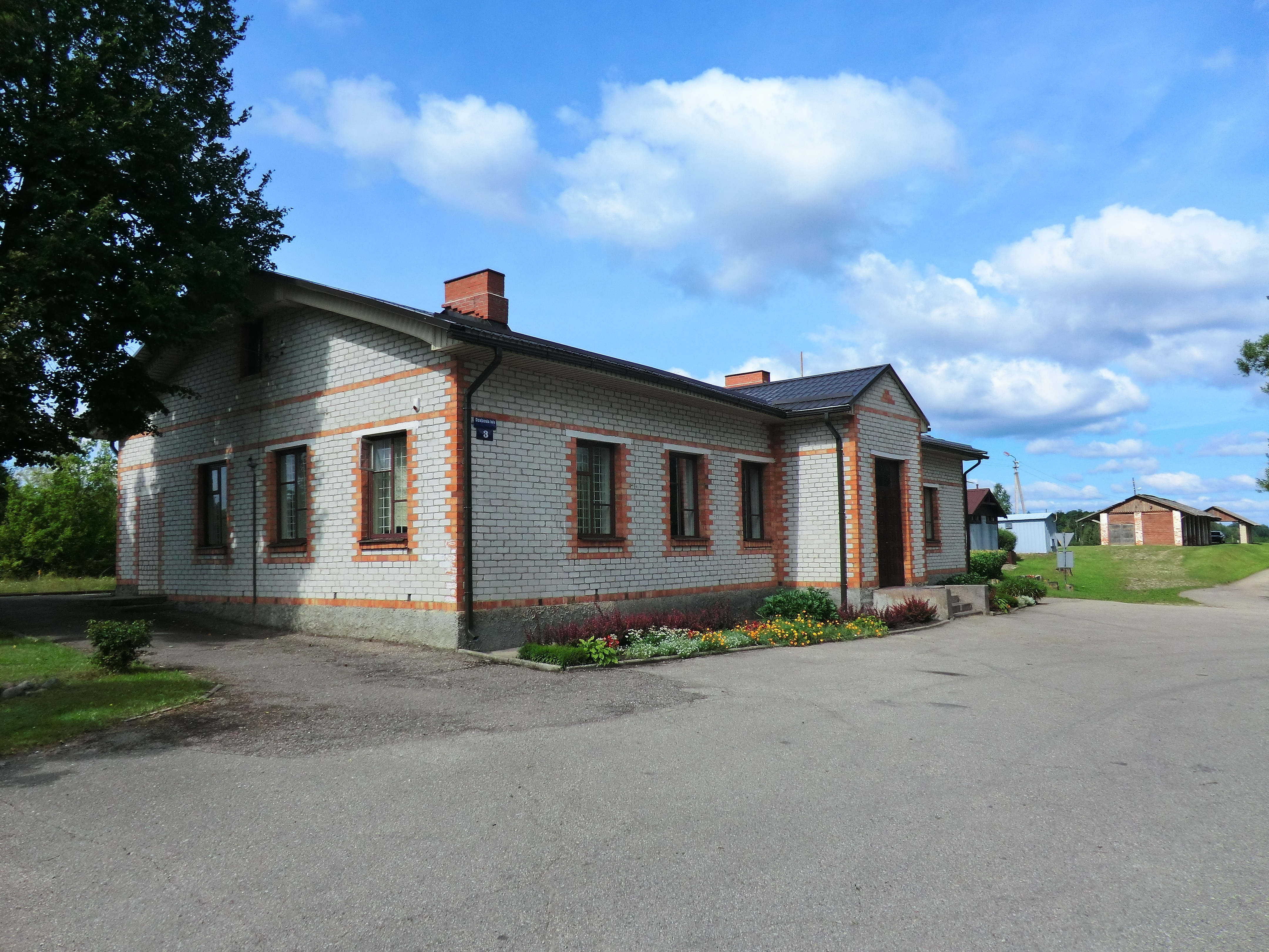 Aglona Railway station